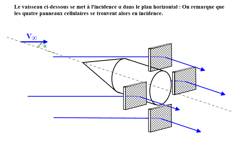 During a setting in incidence of the vessel, all the grid fins are in incidence (except the problems of masking of the panels "downwind" which intervene at the strongest incidences).